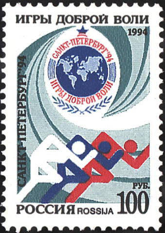 Stamps of Russia. The 1994 Games of goodwill in Saint-Petersburg (July 23 - August 7, 1994)